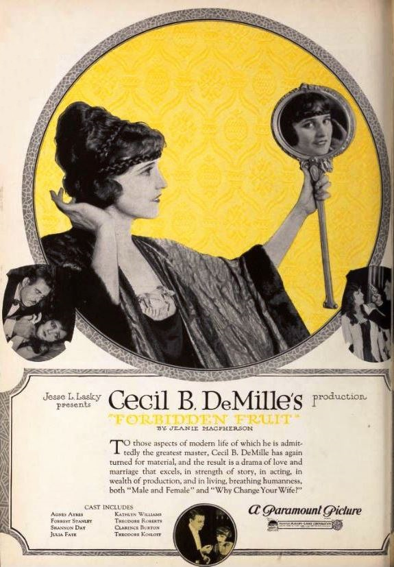 Advertisement for the American drama film Forbidden Fruit (1921) with Agnes Ayres, from the insert after page 10 of the January 8, 1921 Exhibitors Herald.